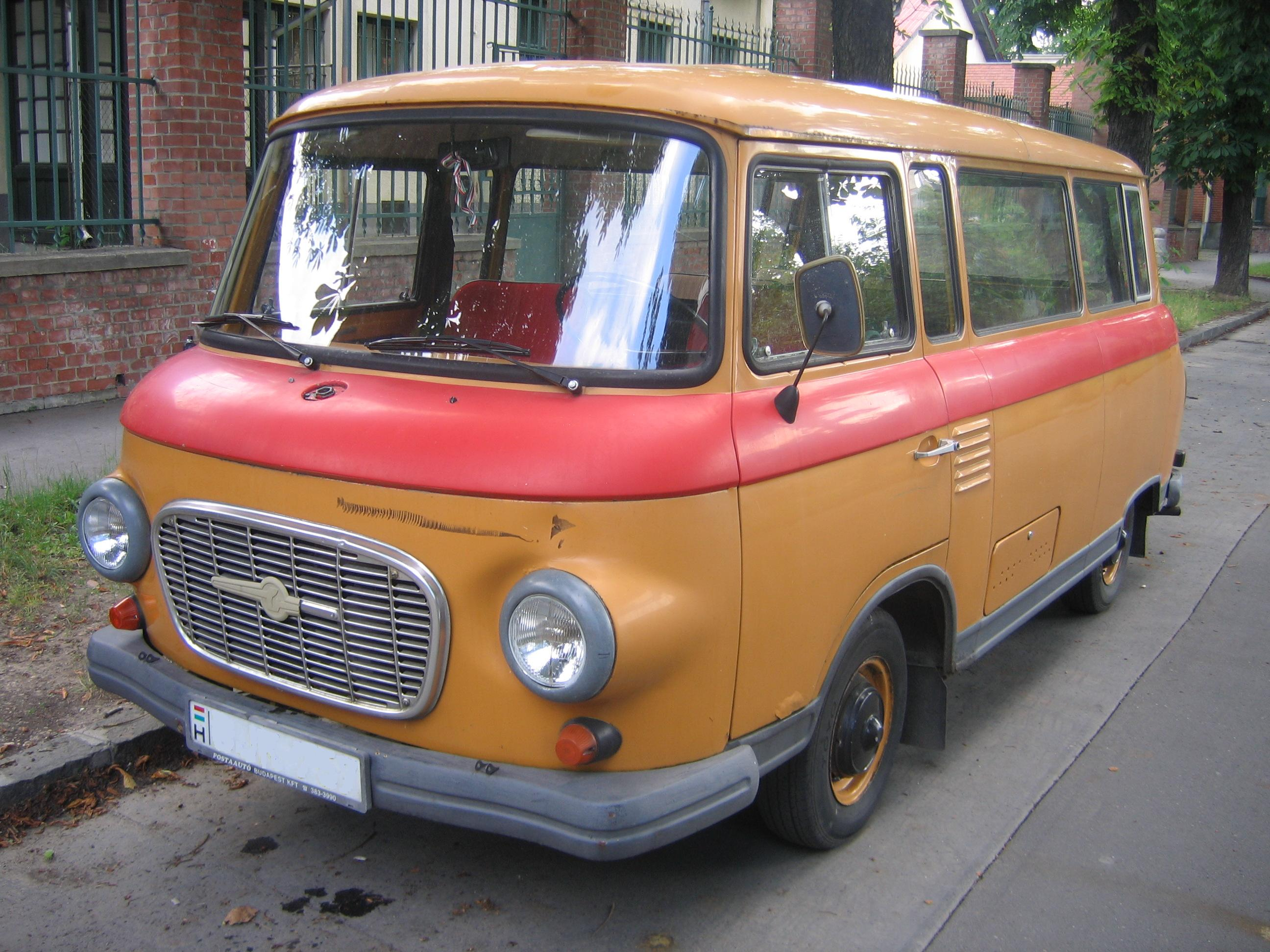 a Barkas B1000 from 1975